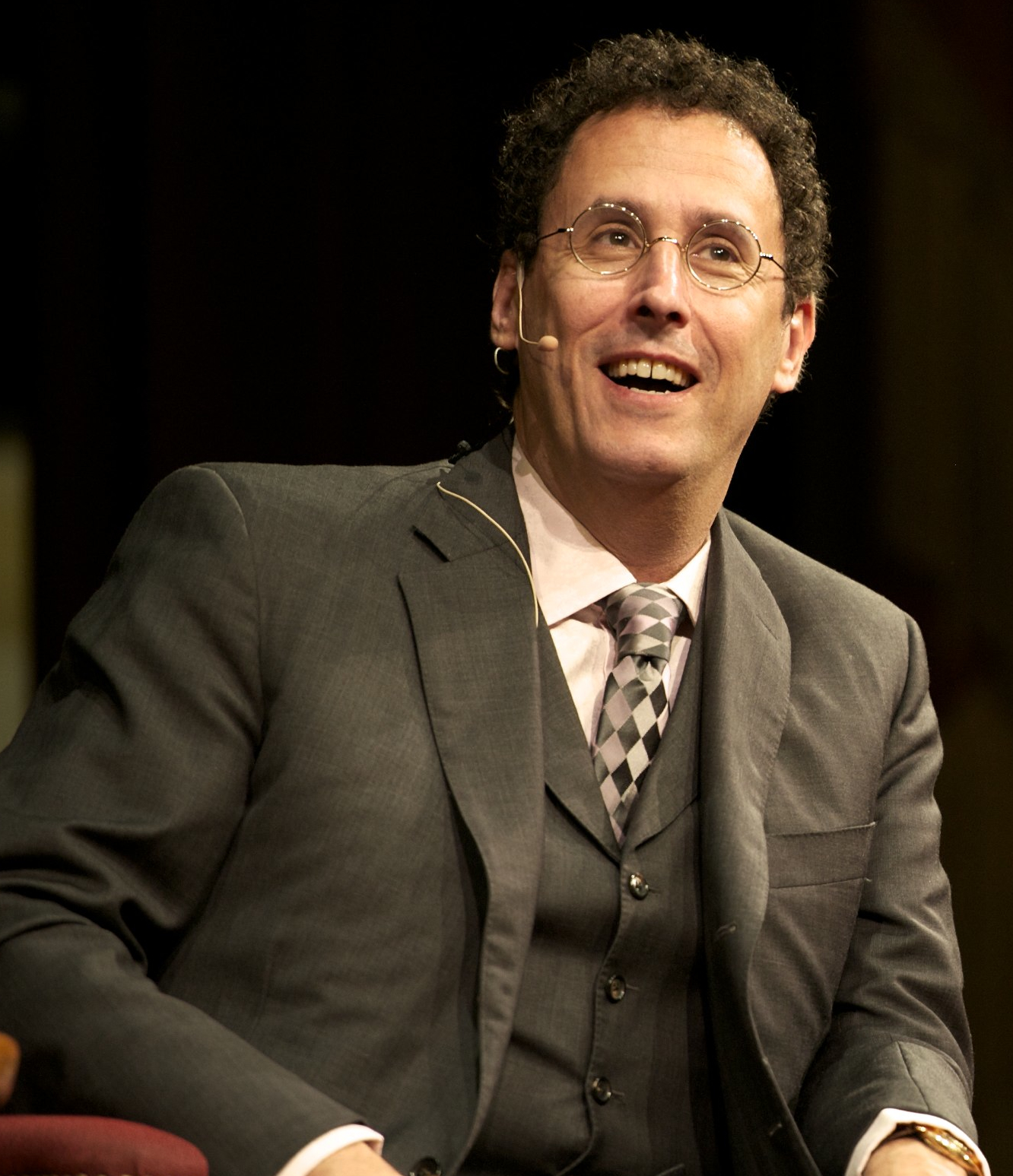 Tony Kushner discusses Angels in America at 20, during a Commonwealth Club program in San Francisco's Herbst Theatre on Nov 6. 2010. Photo by Ed Ritger.